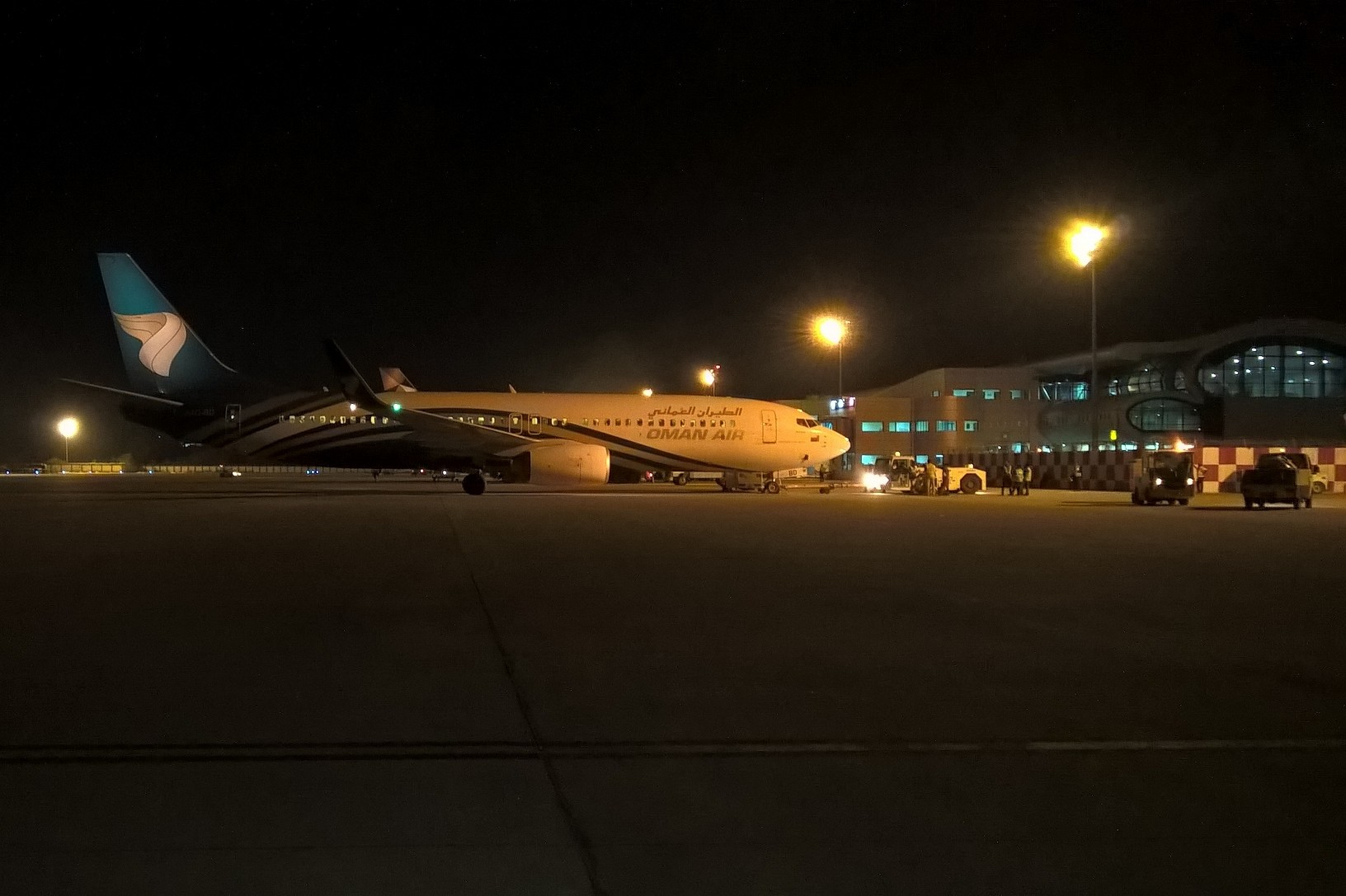 Oman Air Boeing 737-800 Parked at Trivandrum International Airport